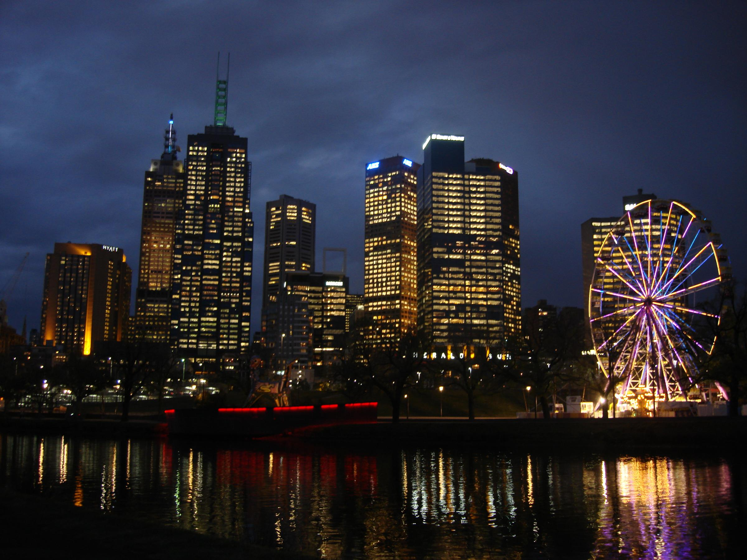 Melbourne Central Business District (CBD), Federation Square and the Yarra River at dusk